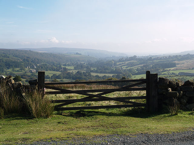 View down Esk Dale From the road to Commondale Moor above Maddy House